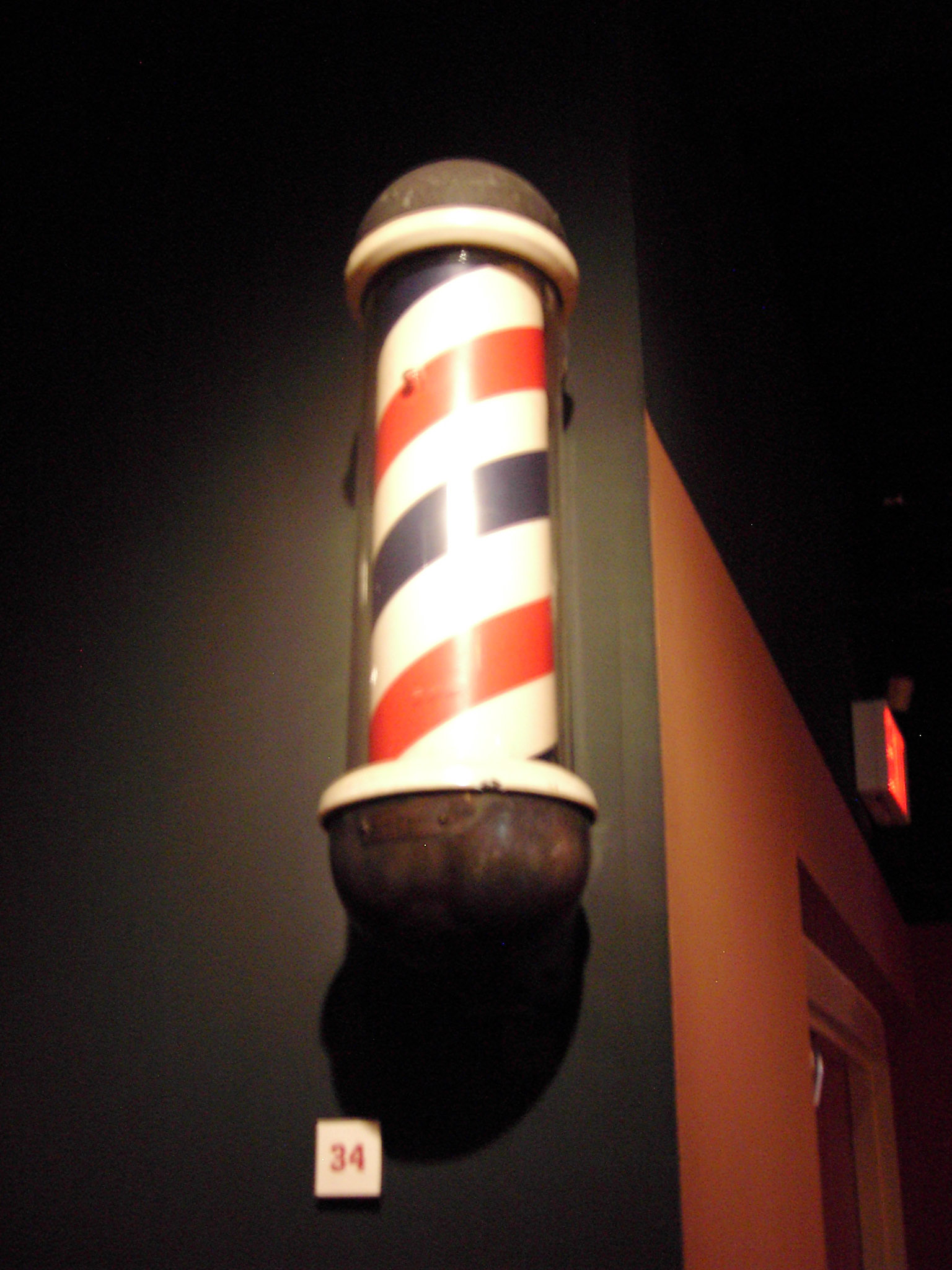 Barber pole, ca. 1938. Before barbers limited themselves to cutting hair and shaving beards, they performed surgery. Since the 1700s, the spiraling red and white stripes of the barber pole have symbolized the blood and bandages that were once part of the barber's trade.